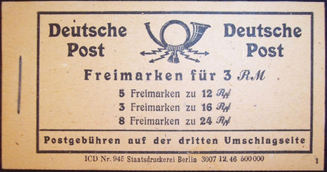 stamp booklet